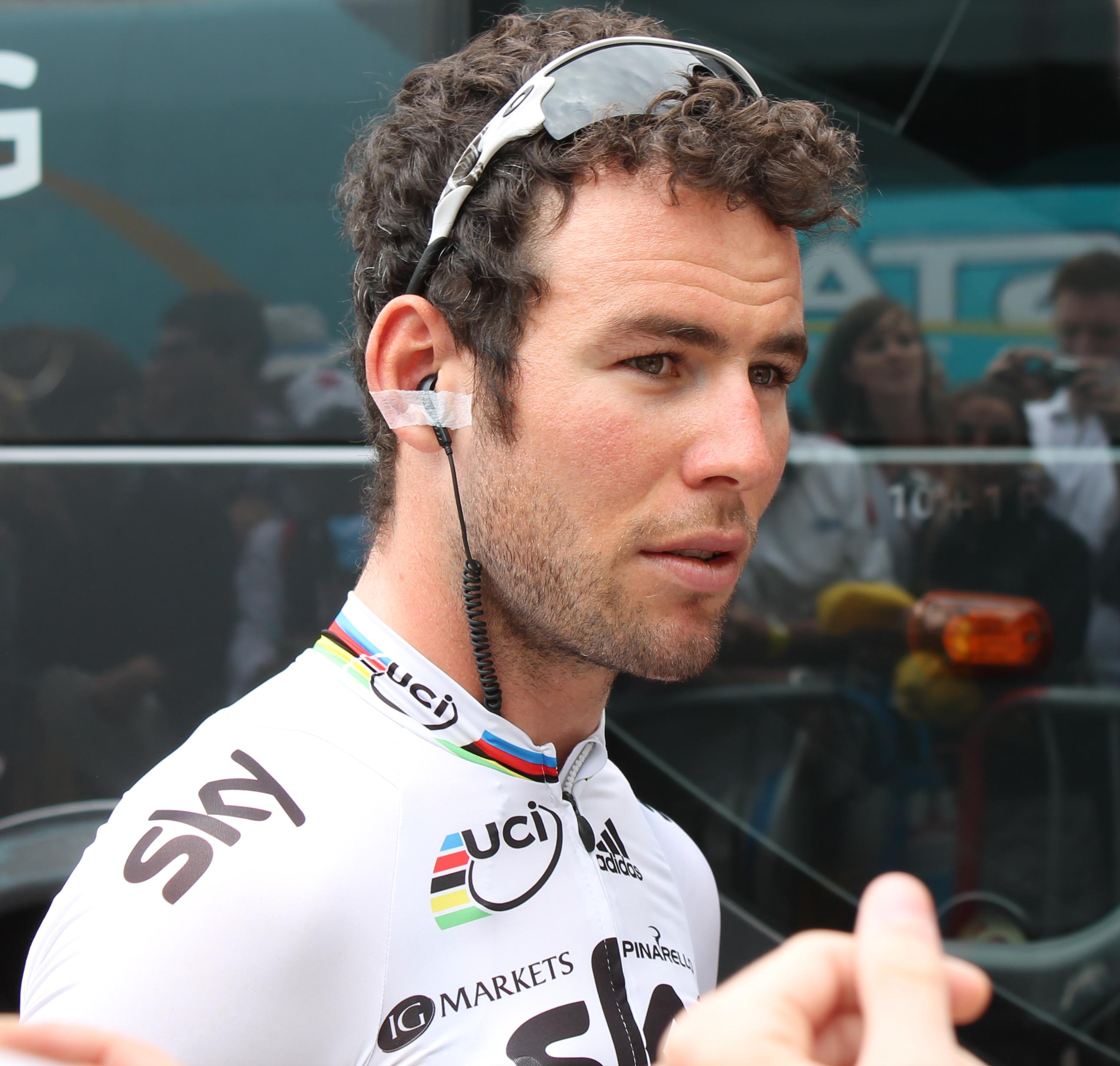 Current world champion Mark Cavendish (Team Sky) at the start of stage 18 of 2012 Tour de France in Blagnac (Haute-Garonne). He would eventually win the stage in Brive-la-Gaillarde (Corrèze).